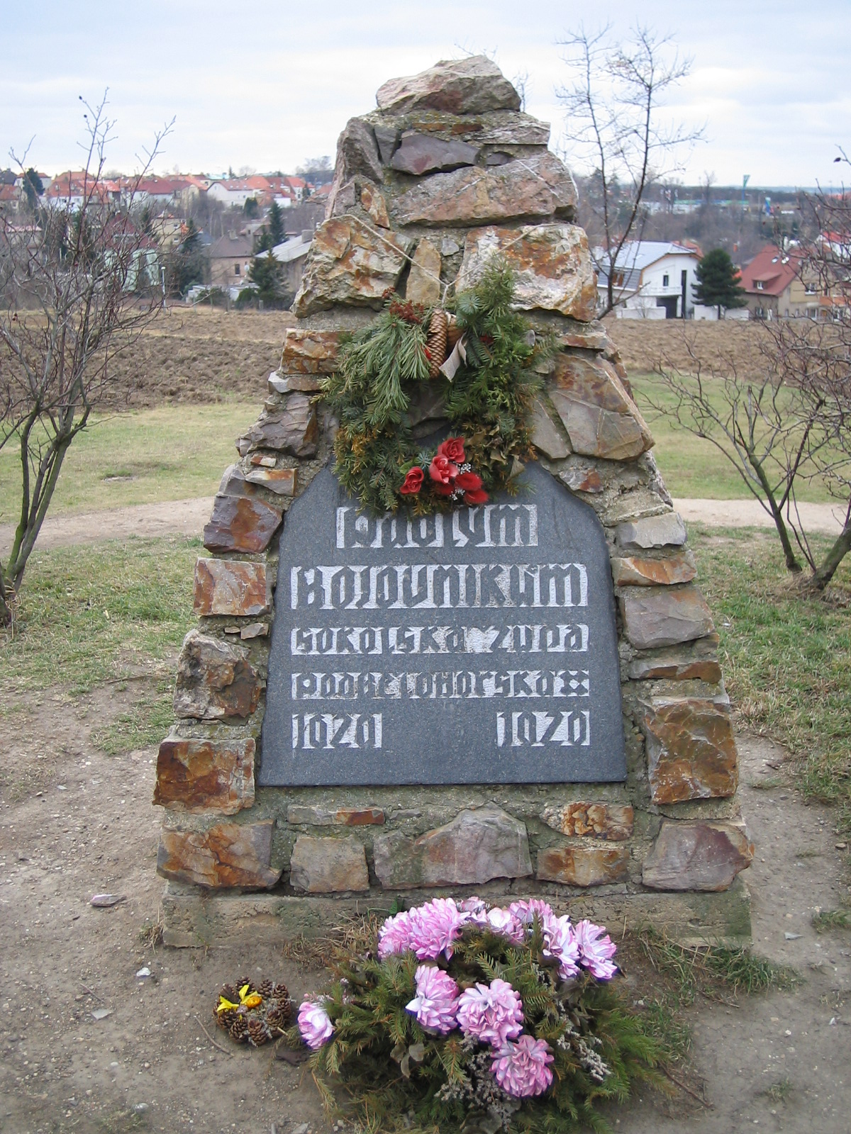 Memorial on Bílá hora commemorating the Battle of White Mountain in 1620. The memorial has been created in 1920.